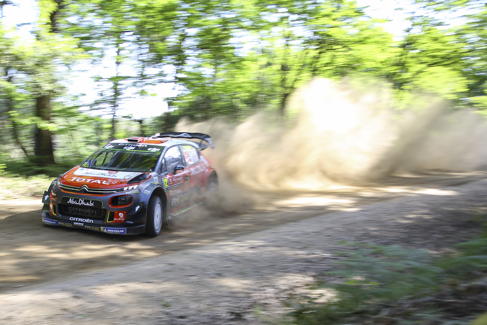 Stage of Viana do Castelo